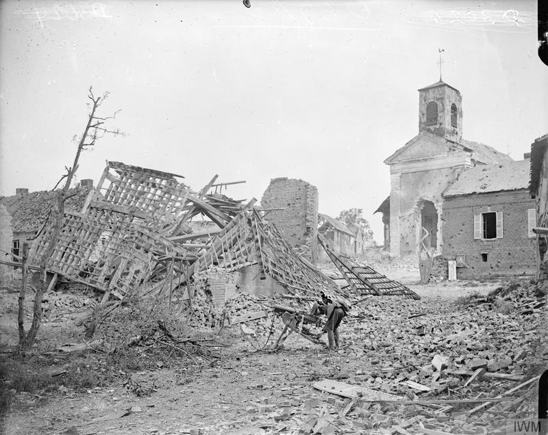 The Hundred Days Offensive, August-november 1918 Battle of Amiens. The ruins of Chipilly the day after it was taken by the 58th Division aided by a regiment of the 33rd Division of the American Army, 10 August 1918.